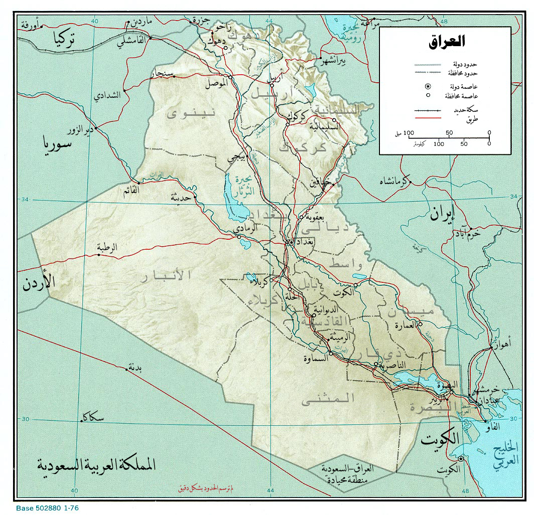 A map of Iraq, drawn in 1976. It shows the old province boundaries and other topographical detail. It is referred to here as a work of the CIA.